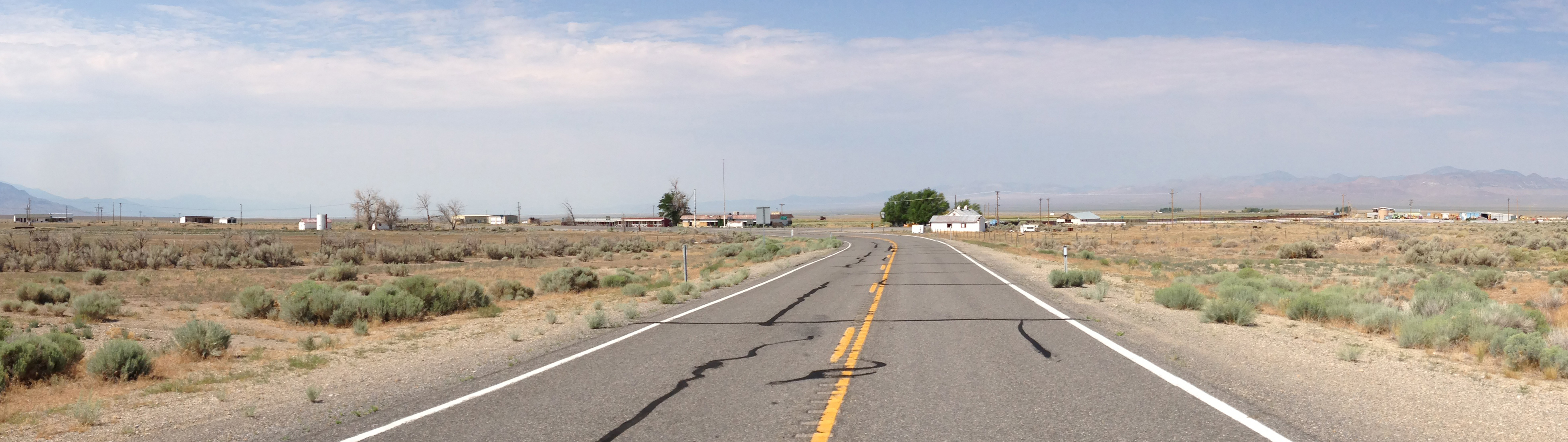 Panorama of Currant, Nevada from U.S. Route 6 about 118 miles east of the Esmeralda County Line-cropped